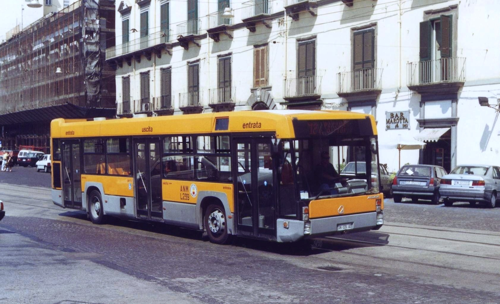 ANM (Naples, Italy) Autodromo BusOtto 12 low-floor bus (#L239), eastbound on Riviera di Chiaia at Piazza Vittoria. Bus number L239 entered service on the ANM (Azienda Napoletana Mobilità SpA) system in July 1997.